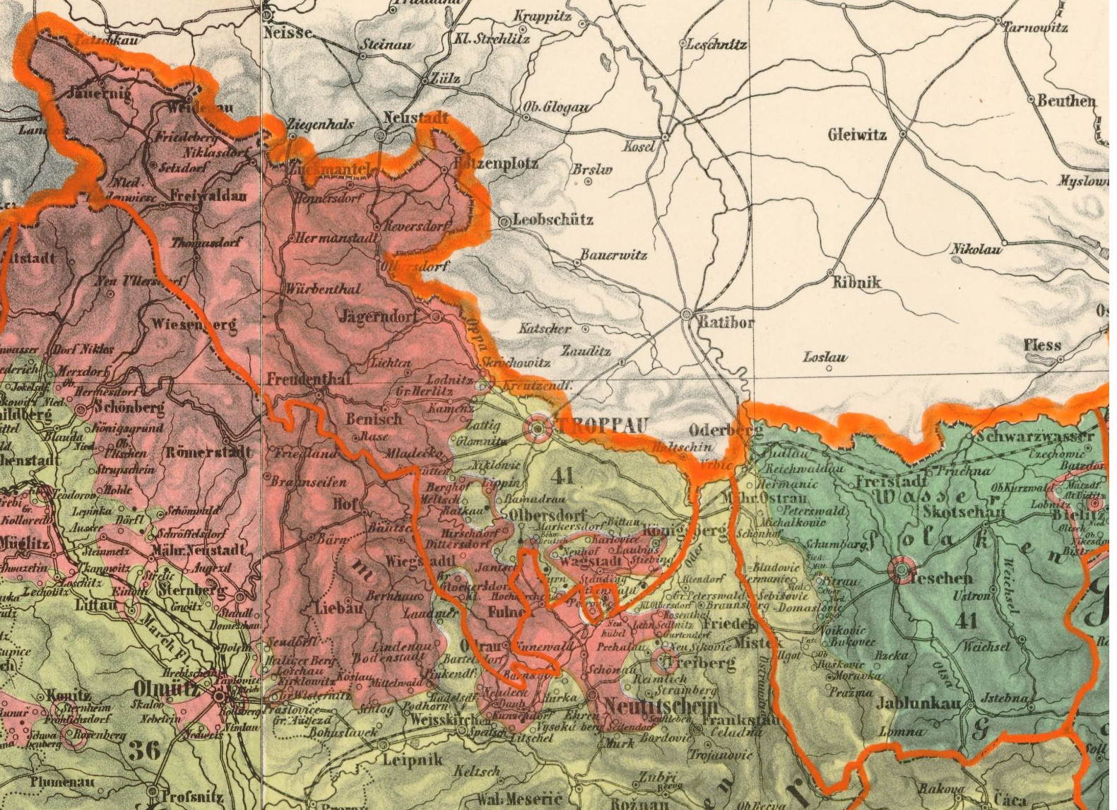 Austrian Silesia linguistic map from 1855